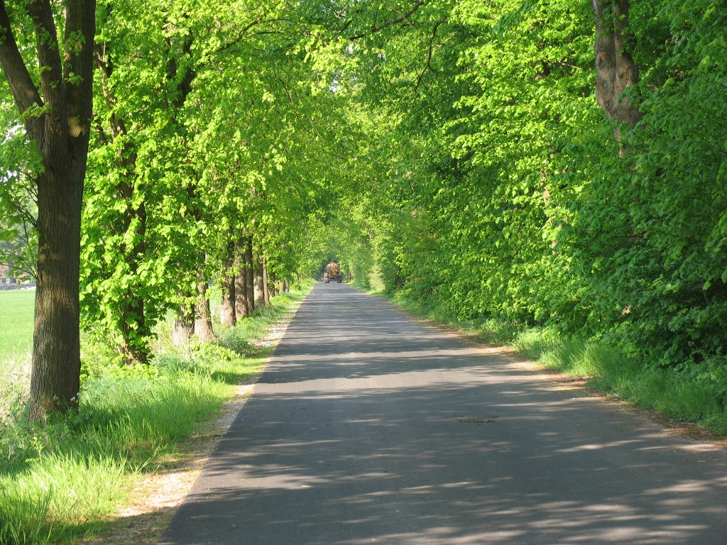 Allee in der Gemeinde Wettringen - Ortslage Brechte.